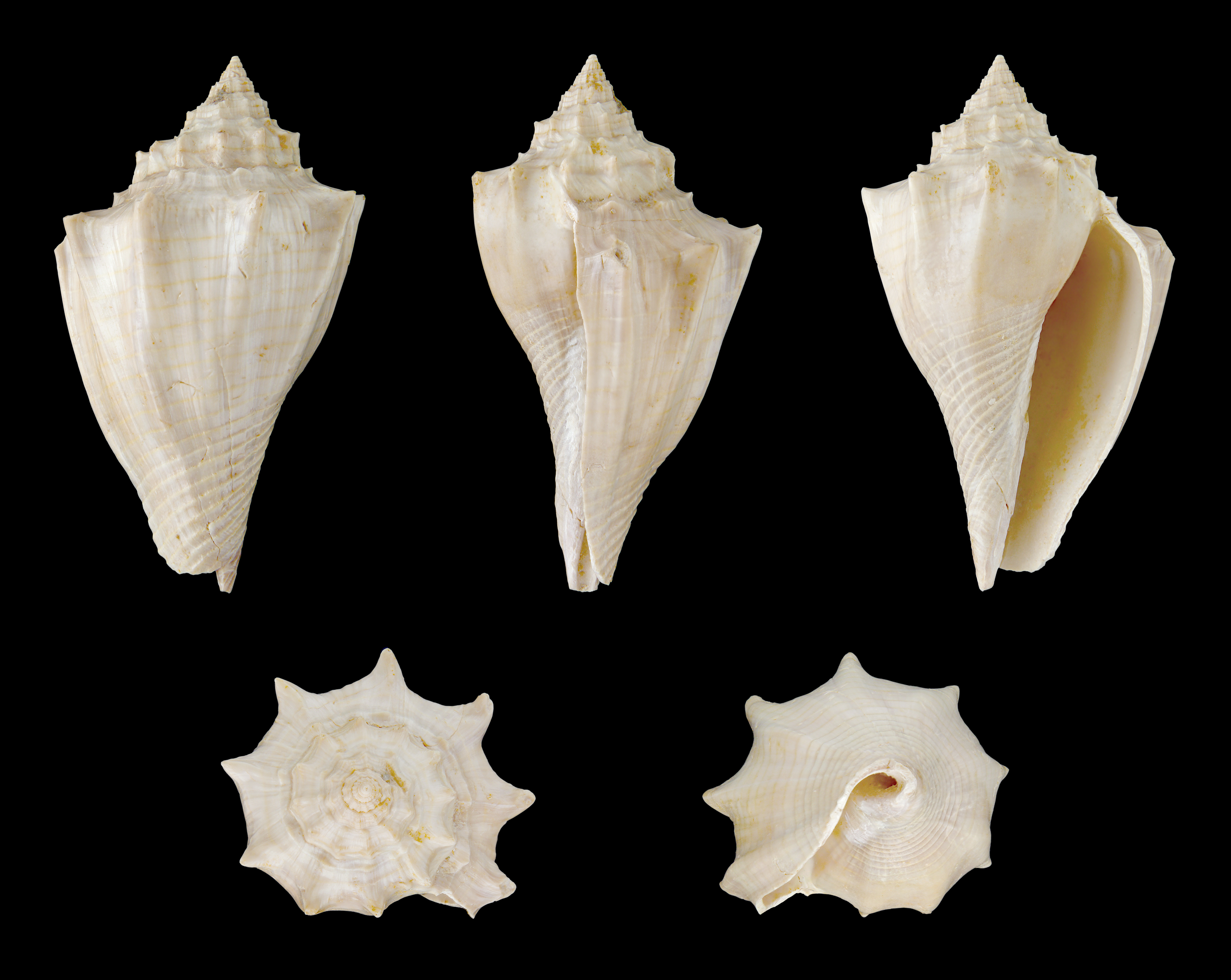 Length 4 cm; Lutetian, Eocene; Old pit, Damery, Dept.Marne, France; Shell of own collection, therefore not geocoded. Dorsal, lateral (right side), ventral, back, and front view.